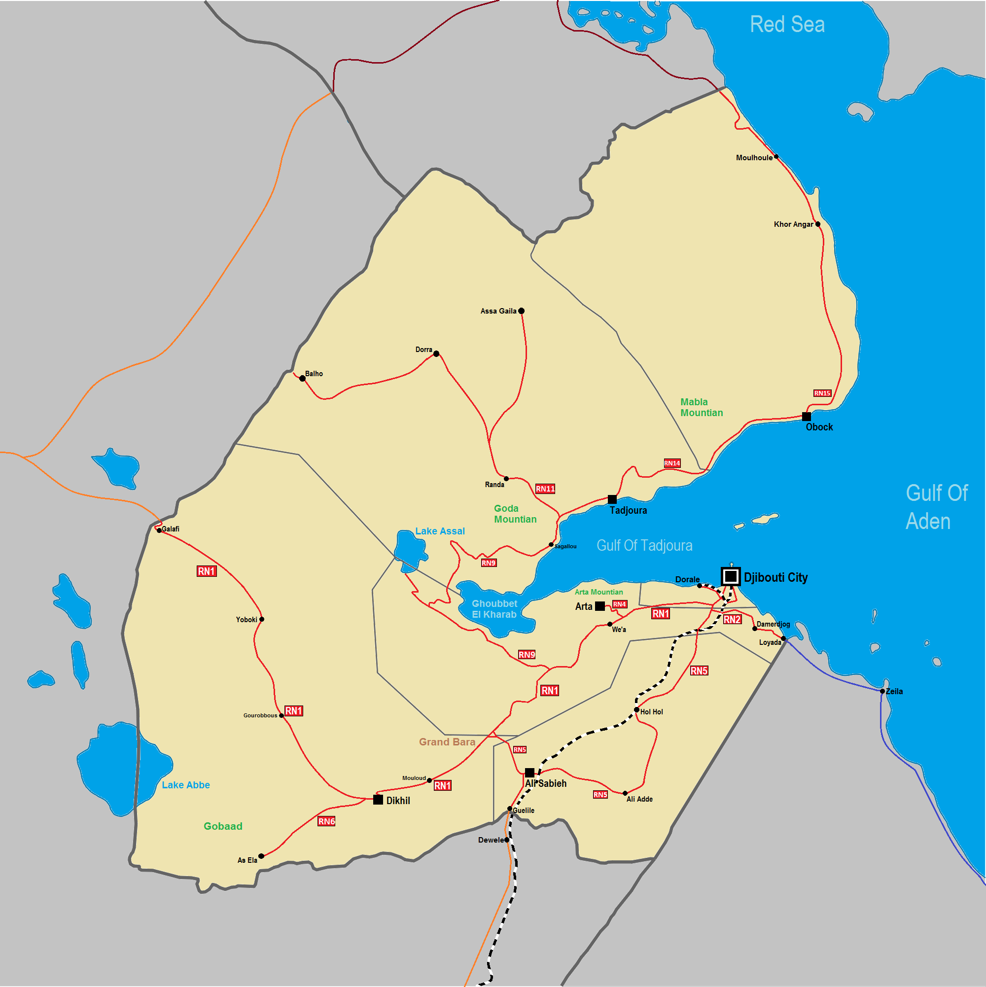 Map of Djibouti national highway